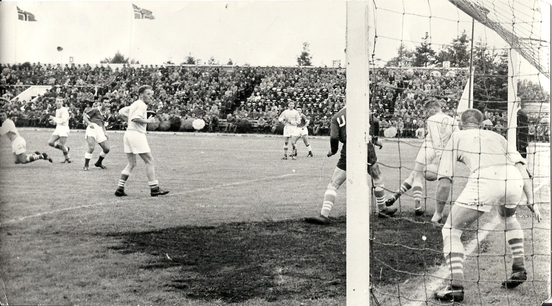 Cup match between Brann and Ulf at Sandnes stadium, 1962